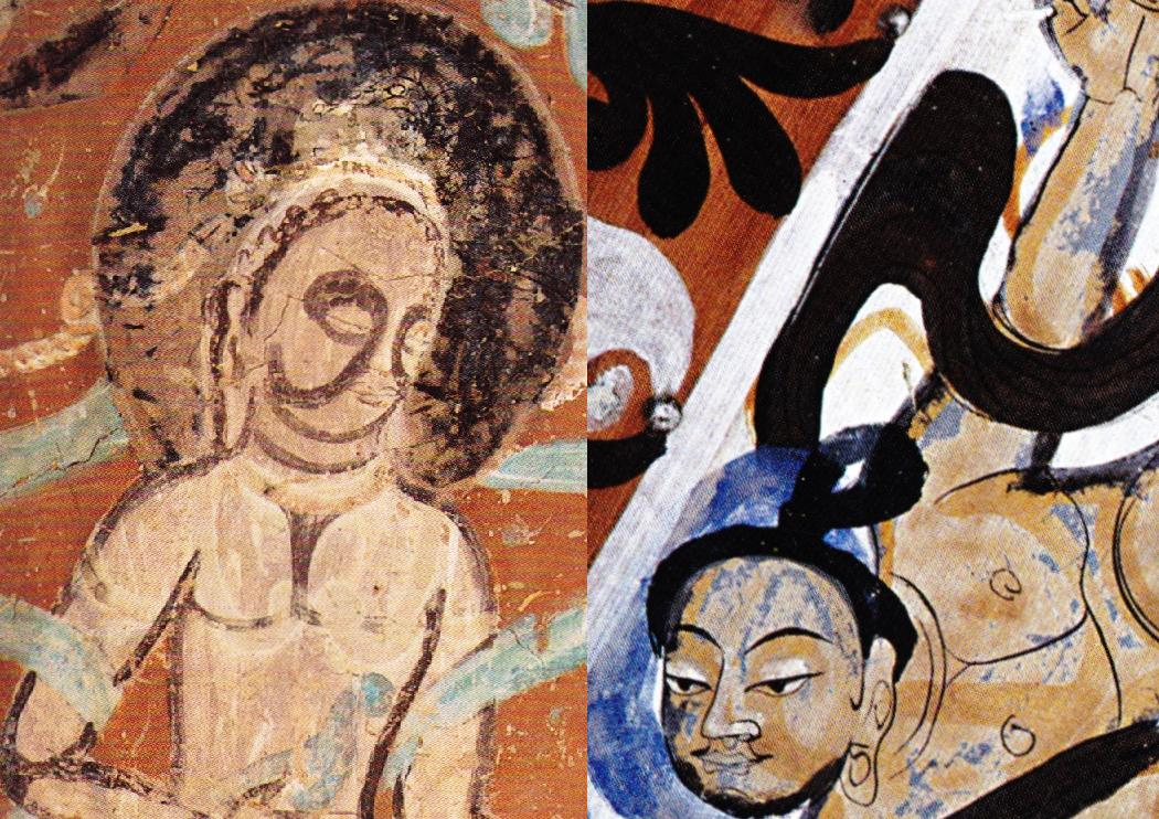 Murals details from Dunhuang showing shading techique. Figure on left from cave 275 from the Northern Liang period (397–460), figure on right from cave 428 from the Northern Zhou dynasty (557 - 581)..